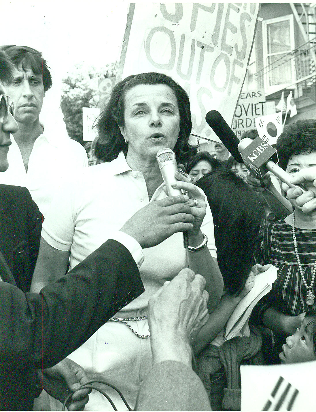 Former San Francisco mayor Dianne Feinstein, now California Senator speaks at a rally in San Francisco's Chinatown in the late 1970s. Husband Richard Blum is on the left. Photograph by Nancy Wong